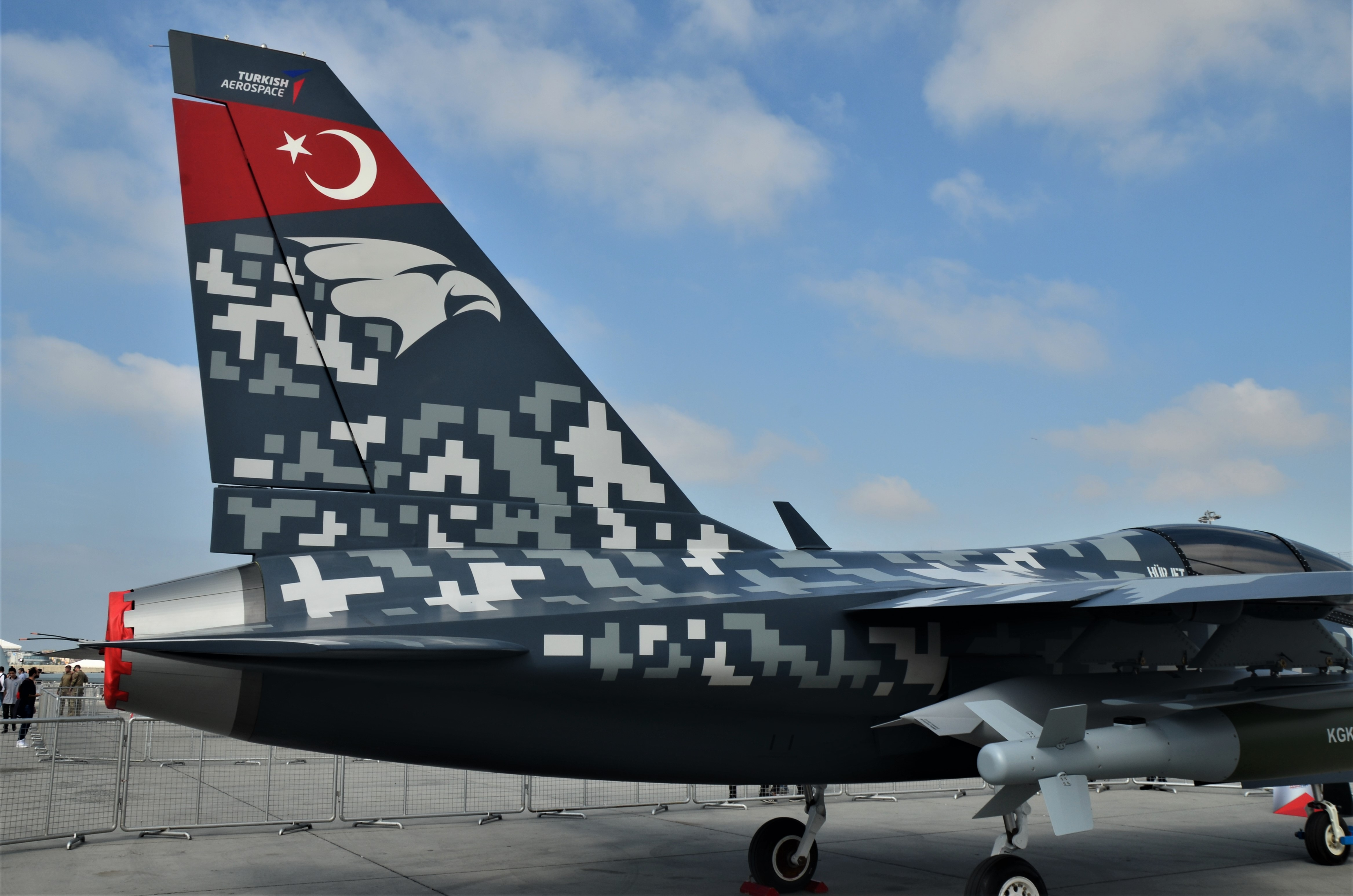 TAI Hürjet at Teknofest 2019